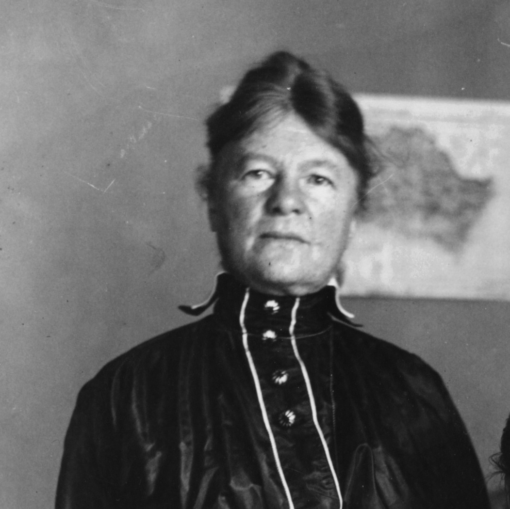 Photograph of the Finnish members of parliament Hedvig Gebhard (1867–1961) and Miina Sillanpää (1866–1952).